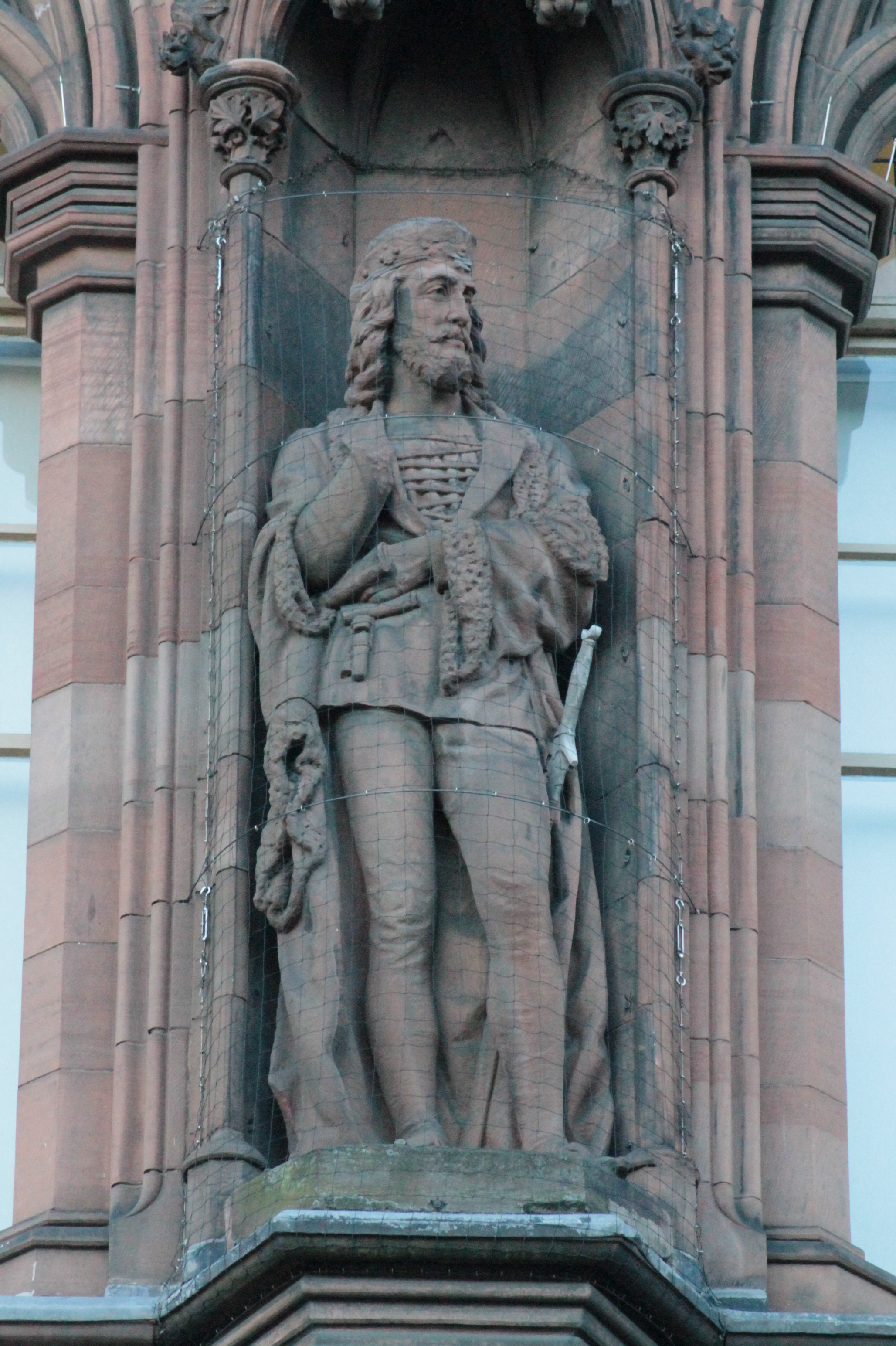 Statue of King James I, Scottish National Portrait Gallery